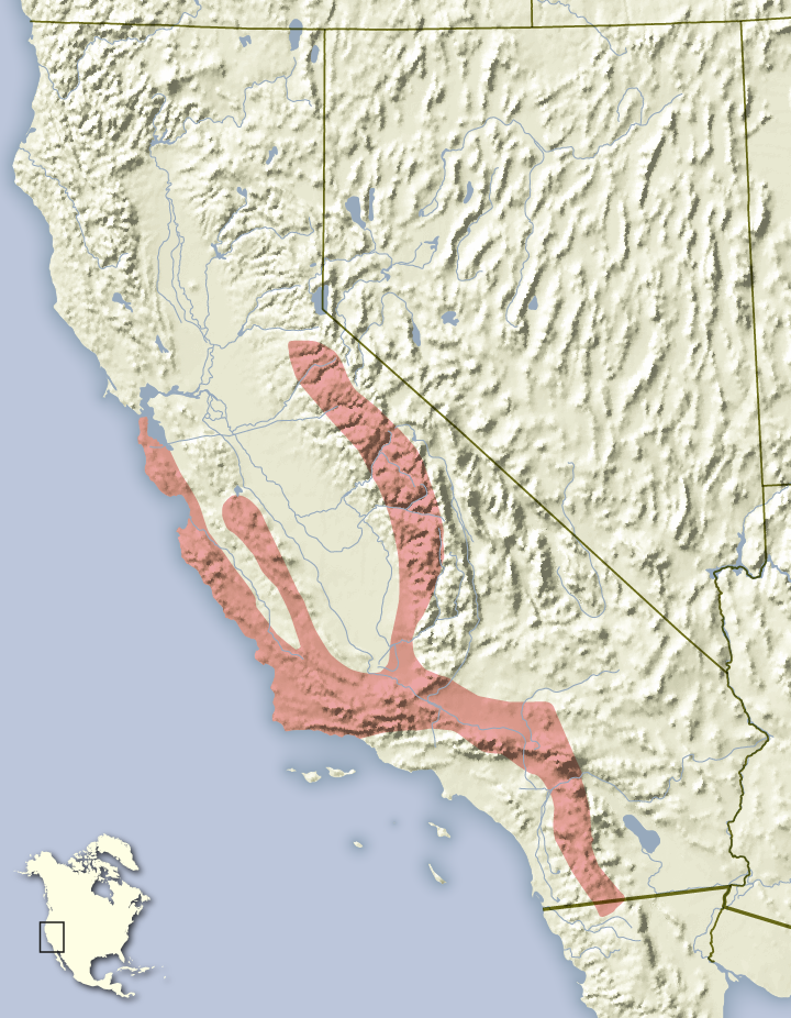 Distribution map of Merriam's chipmunk